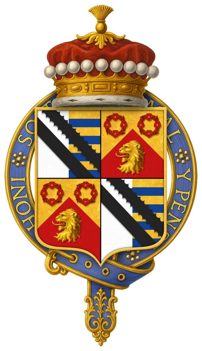 Coat of Arms of Philip Lever, 3rd Viscount Leverhulme, KG, TD